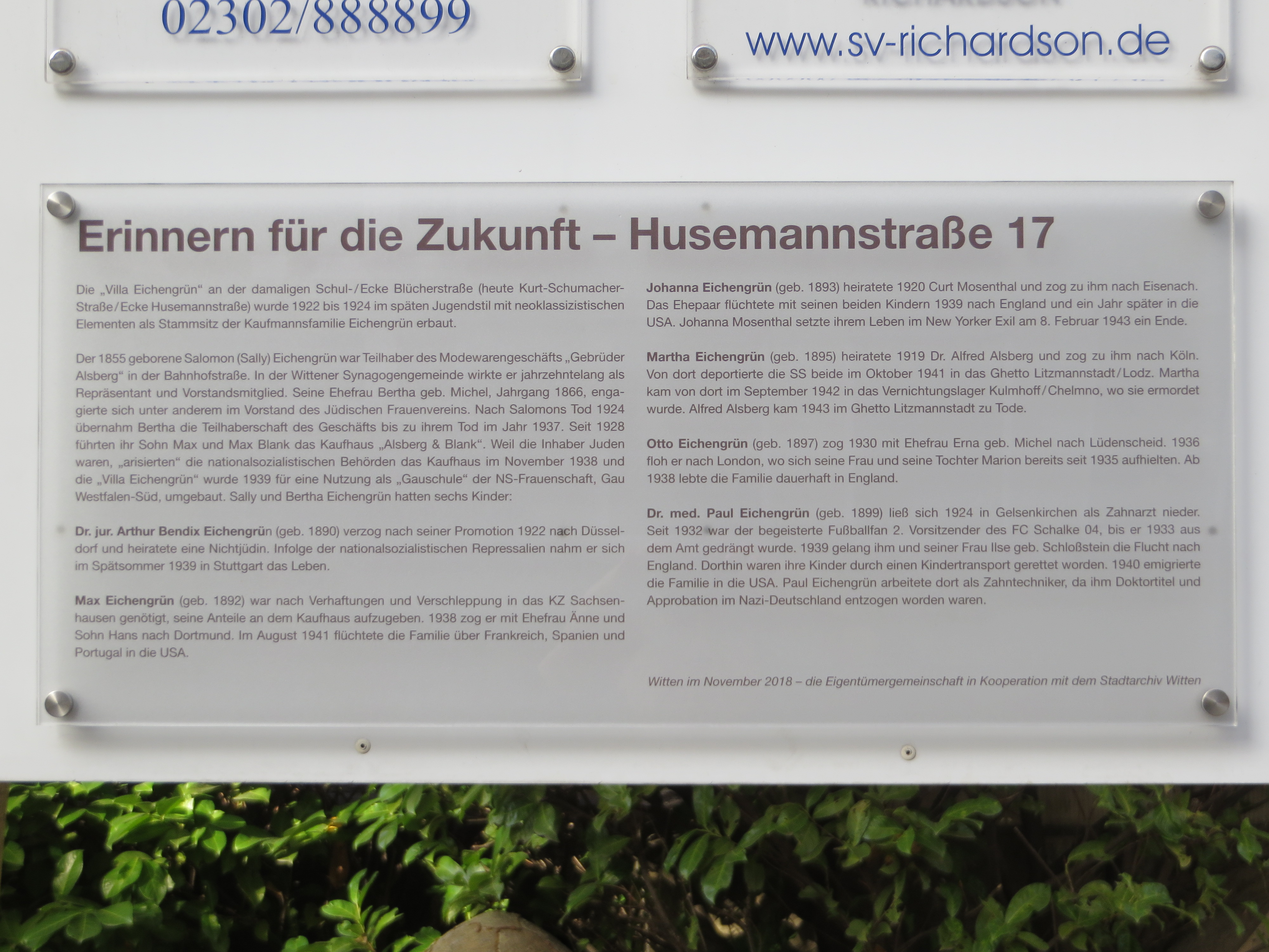 Commemorative plaque at house Husemannstraße 17 in Witten, Germany